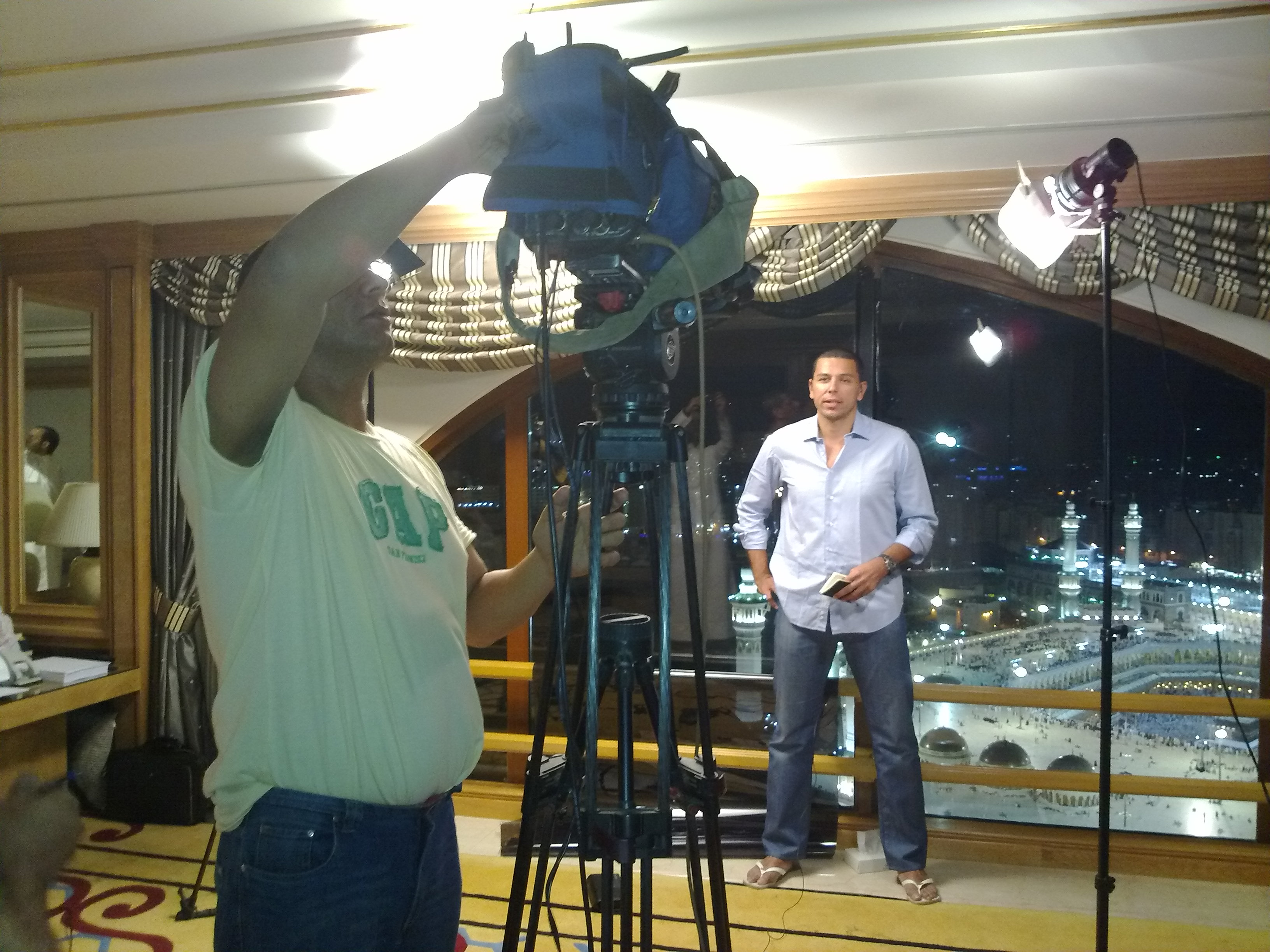 Ayman gets set up for Al Jazeera's first live broadcast out of Mecca. Photo by Omar Chatriwala